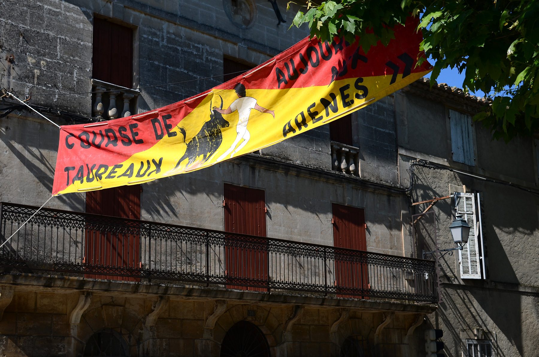 Mouriès, Avenue Pasteur